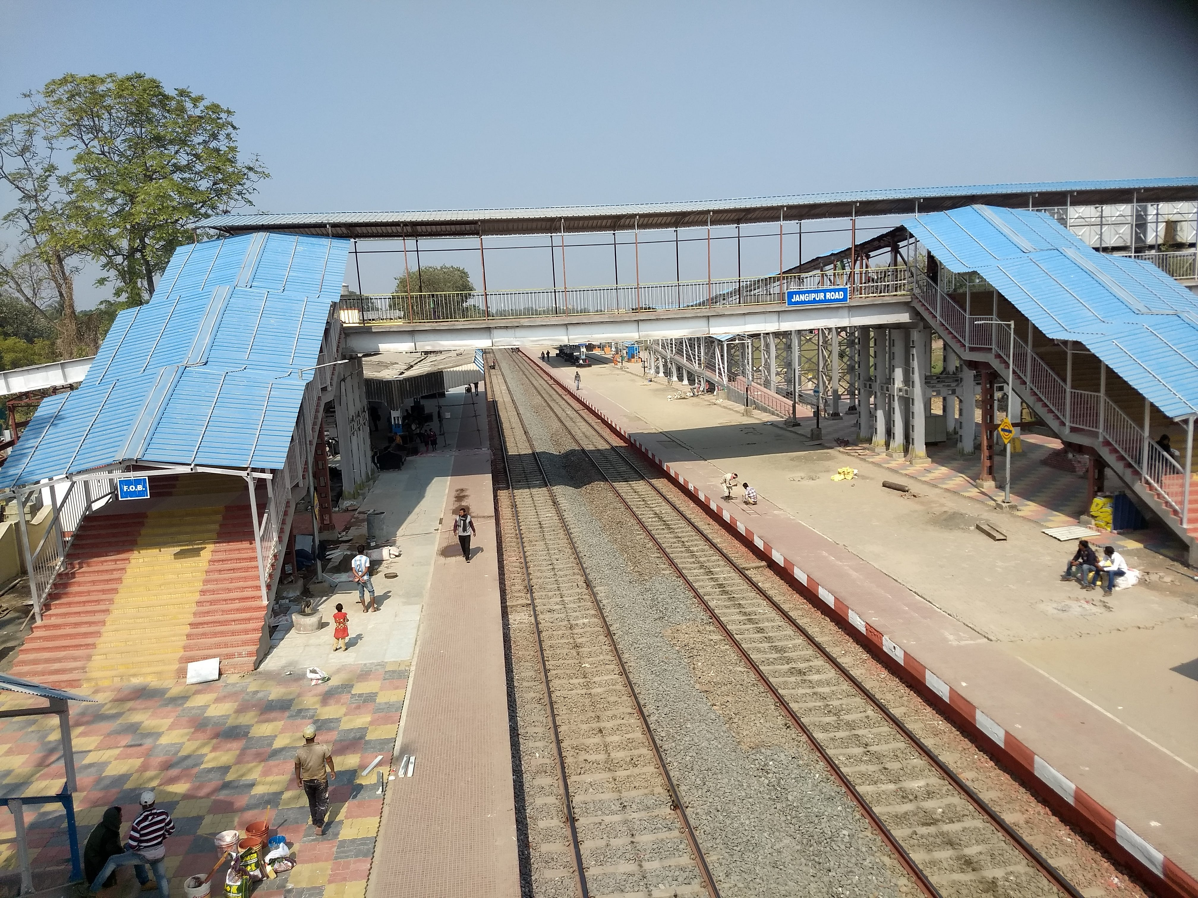 Photo of Jangipur Station